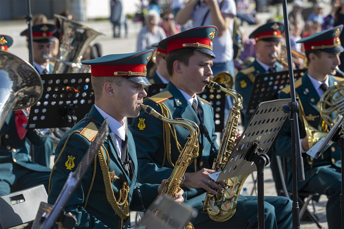 Orchestra of the Military University of the Ministry of Defense of RF.